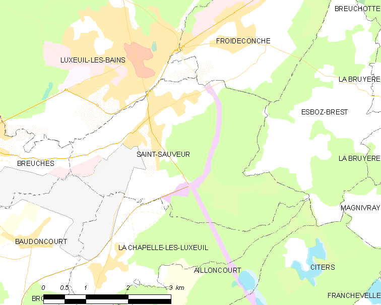 Map of French municipality